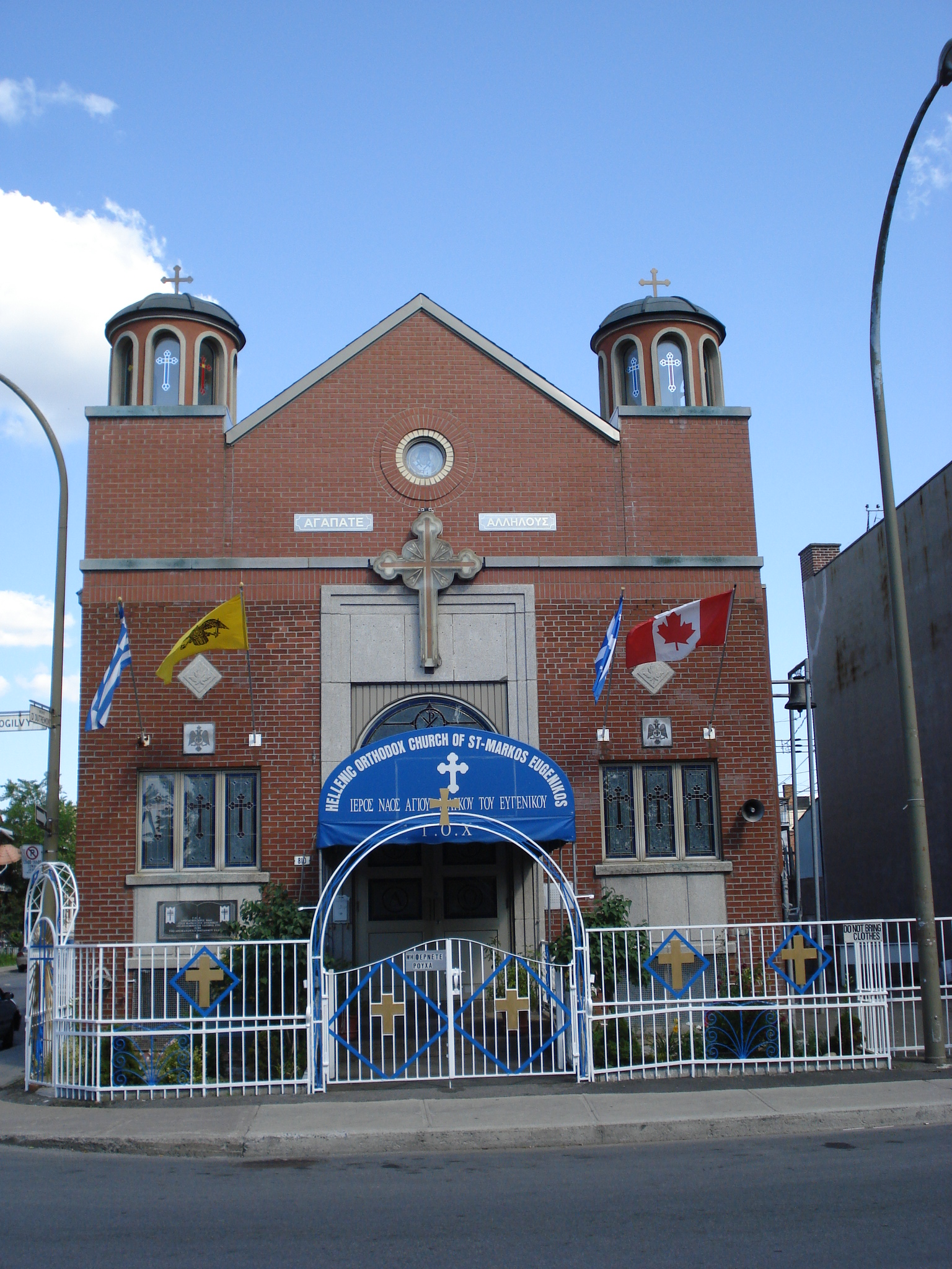 St. Markos Eugenikos Greek Orthodox Church of Montreal. St. Markos Eugenikos is also known as St. Mark of Ephesus